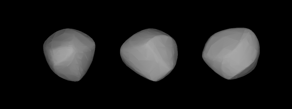 A three-dimensional model of 38 Leda that was computed using light curve inversion techniques.